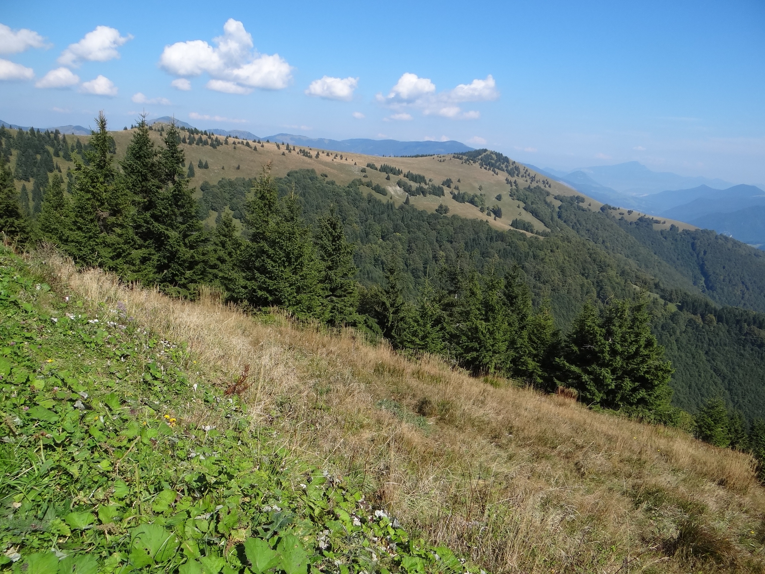 Malý Zvolen. View from Nová hoľa